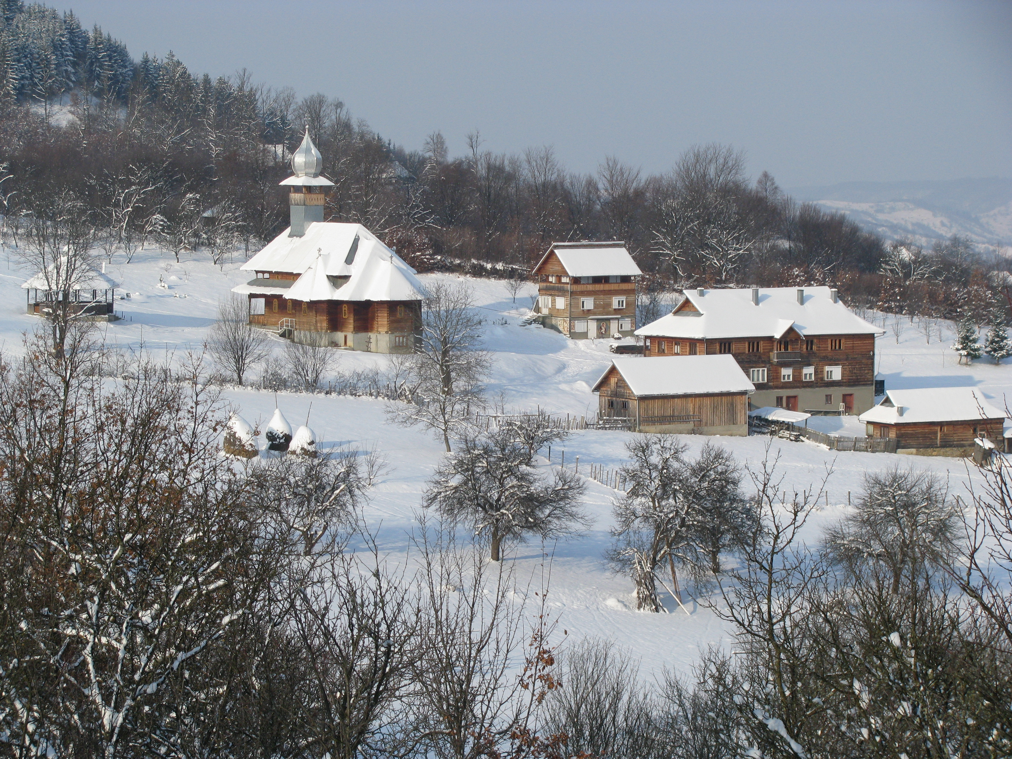 the Dormition of the Theotokos orthodox monastery in Rona de Sus (Бишня Рівня), Maramureș County, Romania